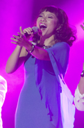 12 Aug 2012 / Hanoi, Vietnam.